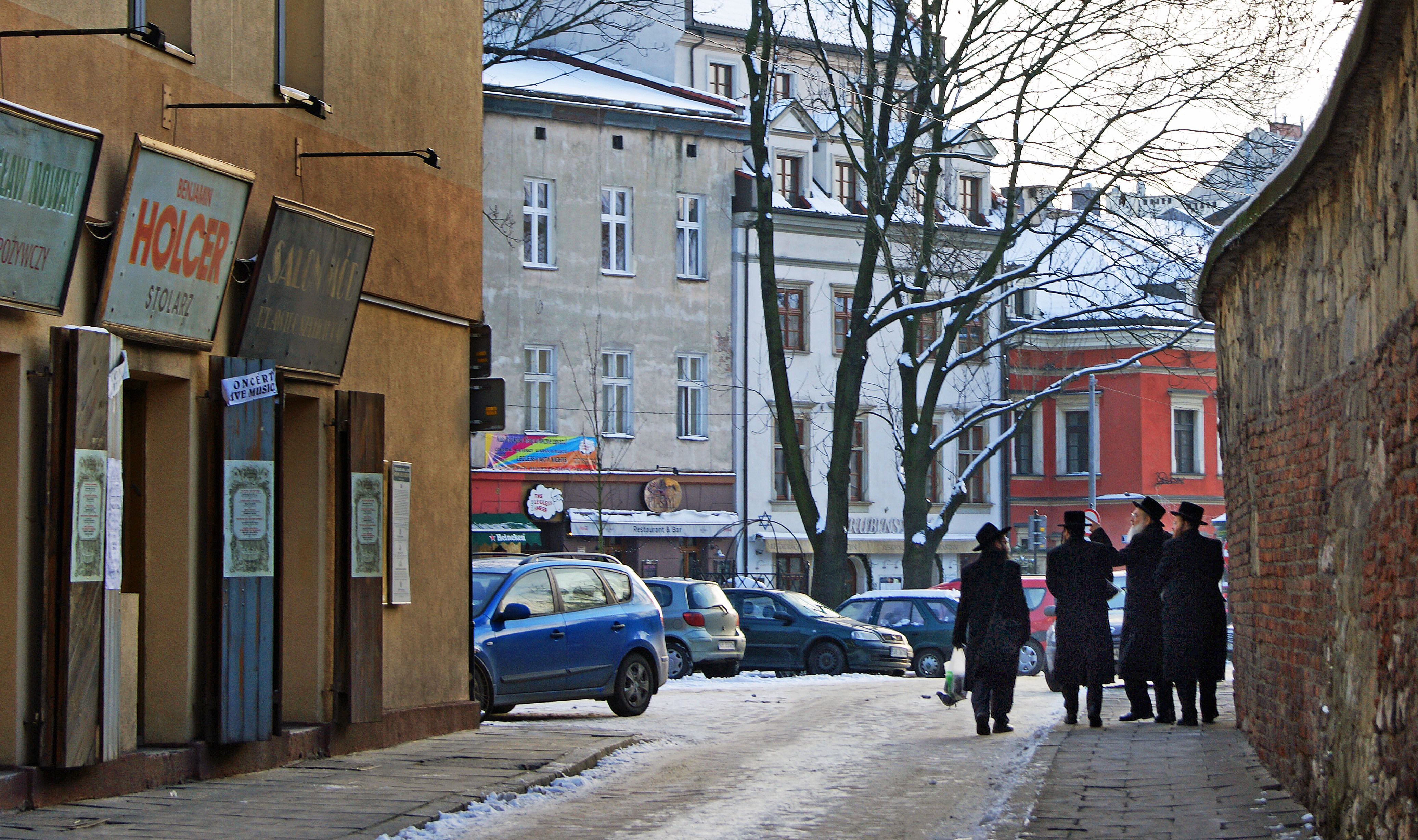 Szeroka street, Kazimierz, Krakow, Poland